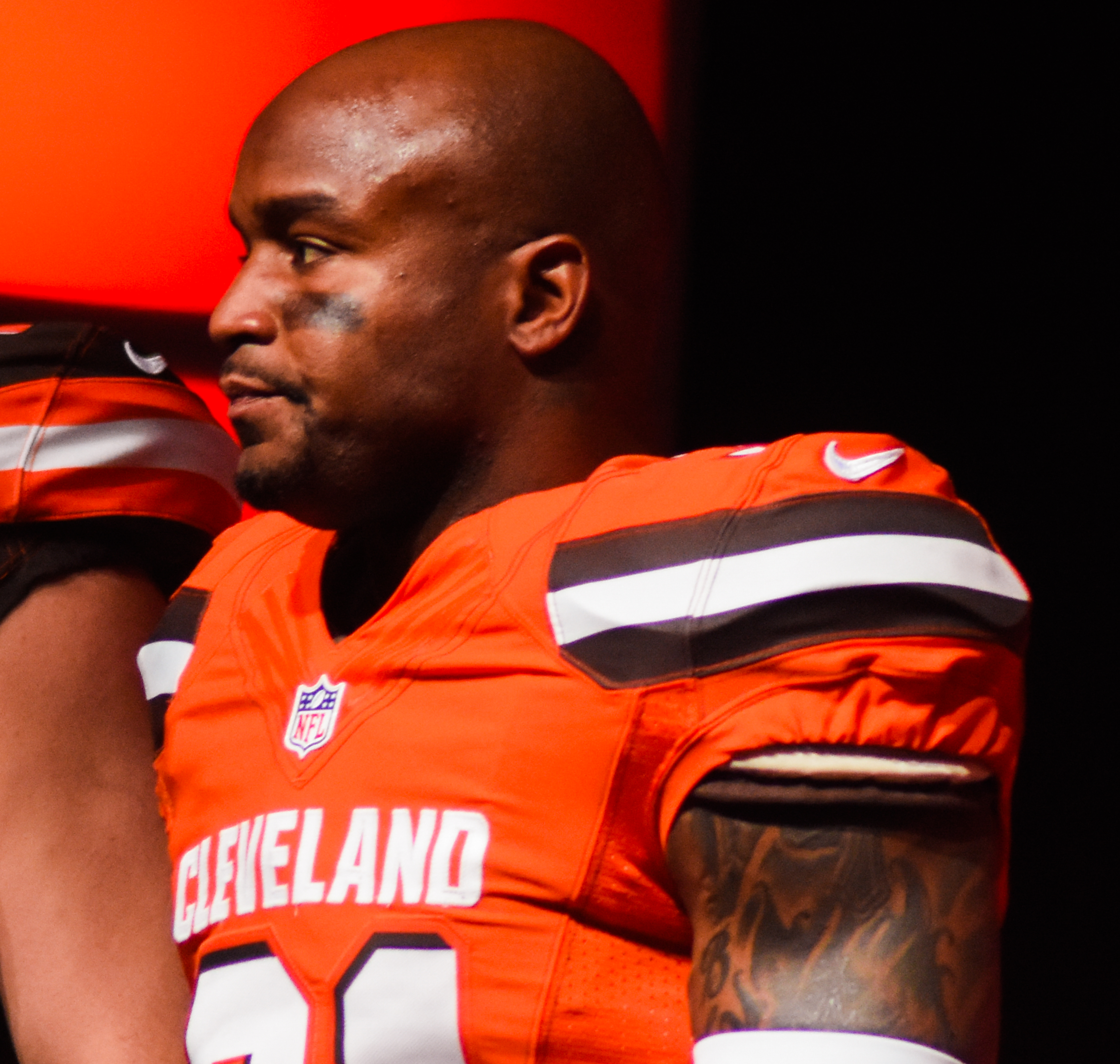 Cleveland Browns New Uniform Unveiling